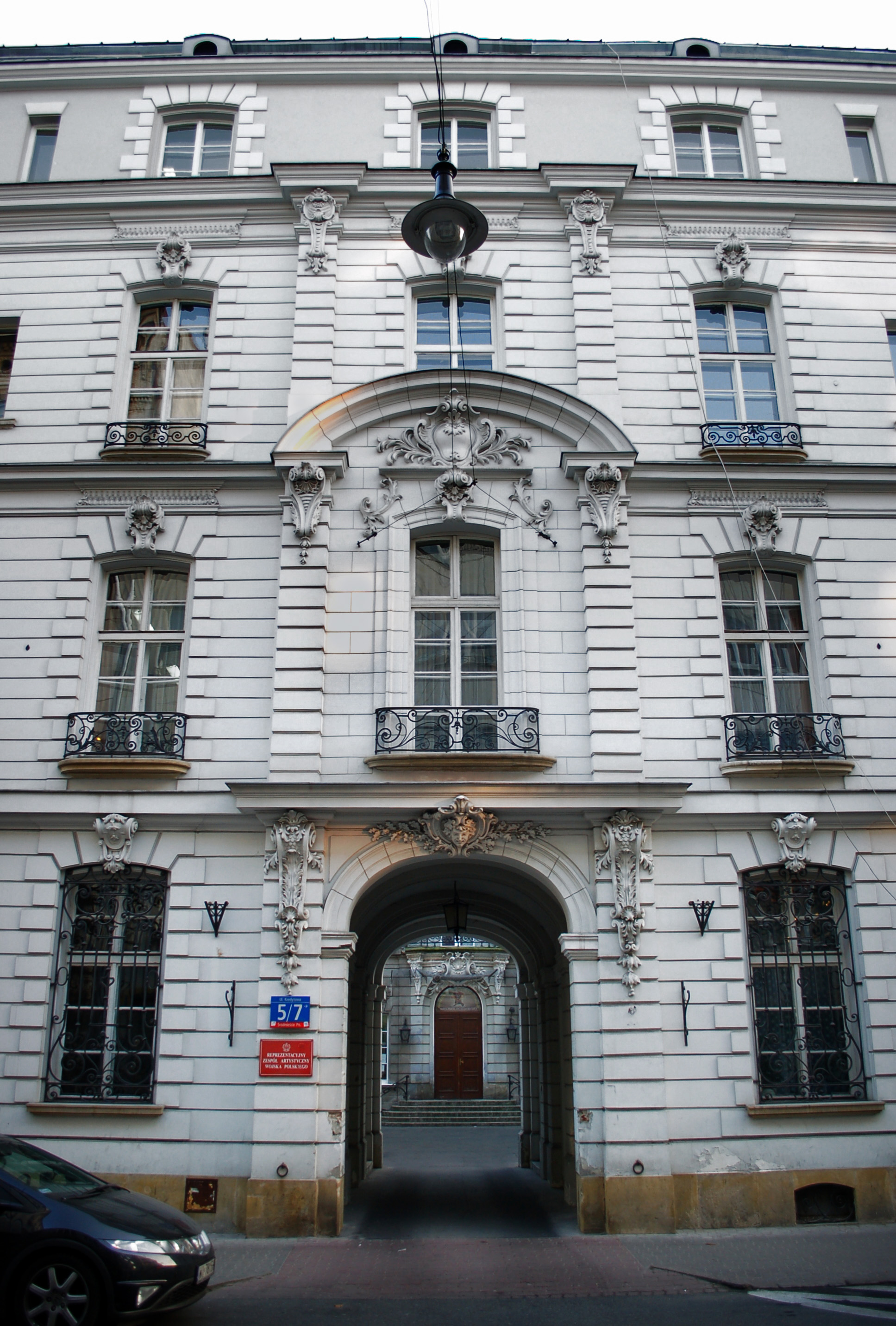 Palace of the Hunting Society (Warsaw)